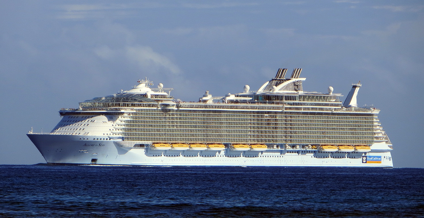 Cruise ship Allure of the Seas in Falmouth, Jamaica